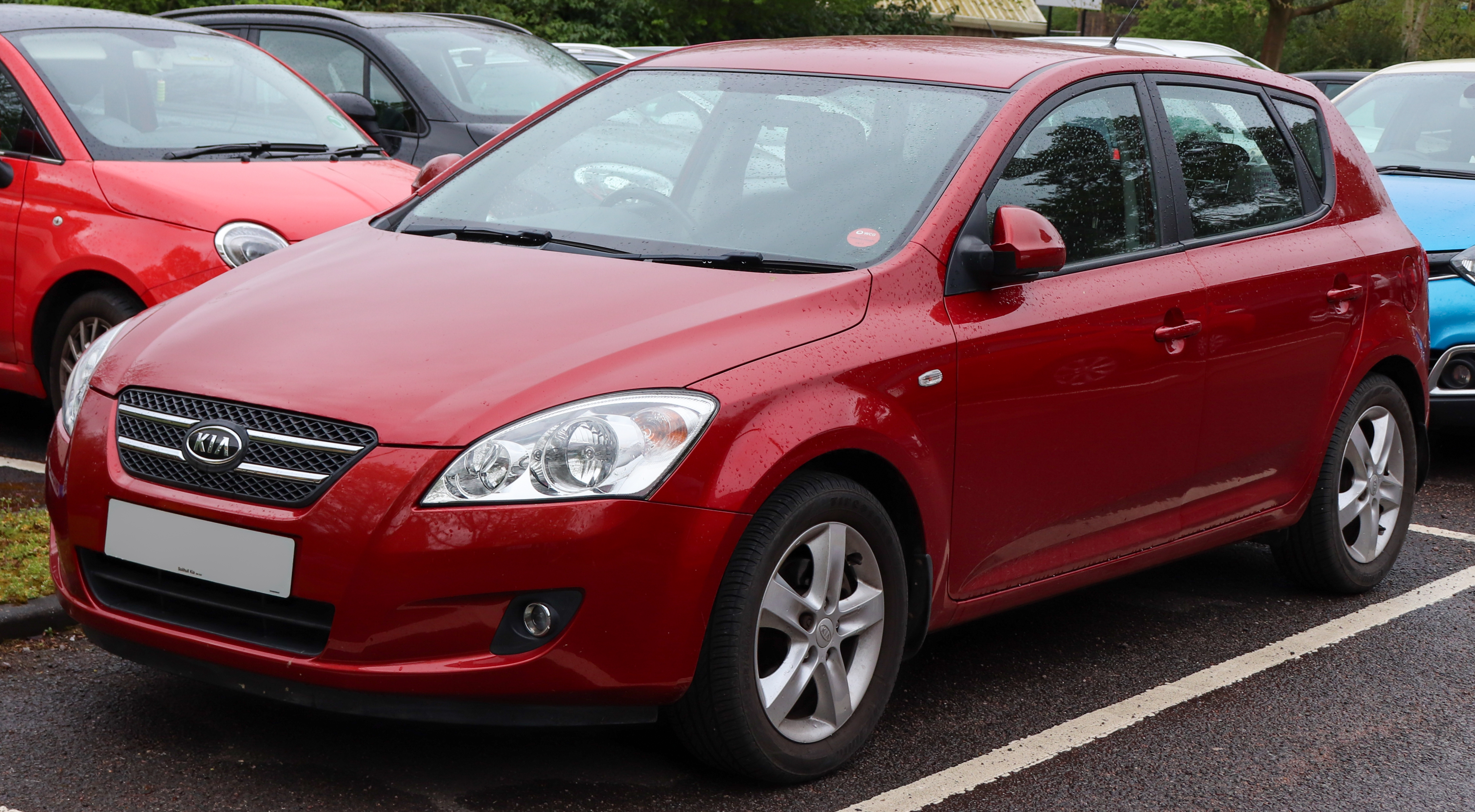 2008 Kia Cee'd SR-7 1.6 Front Taken in Leamington Spa